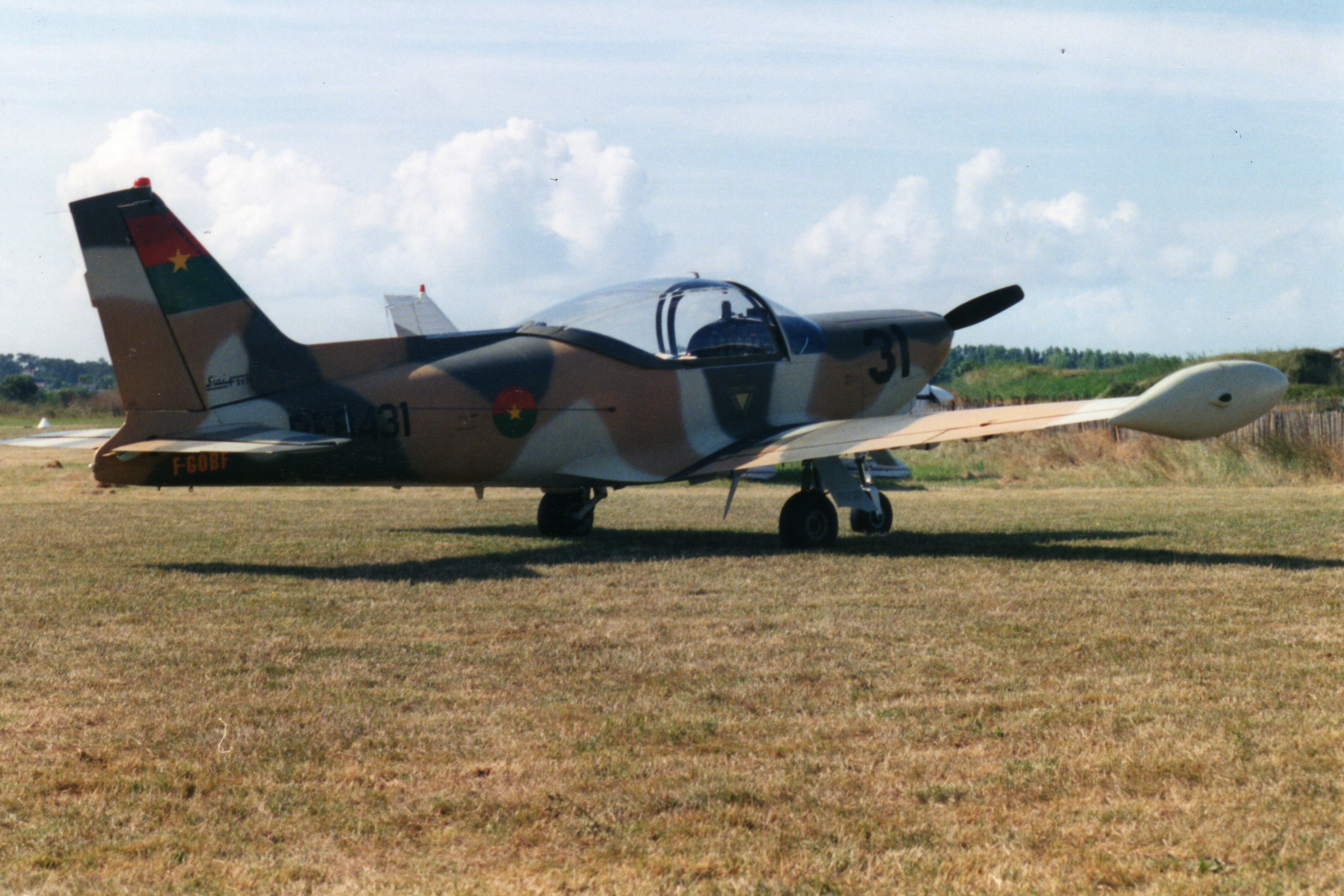 SIAI-Marchetti SF-260 aircraft (F-GOBF), Aérodrome de La Tranche-sur-Mer, La Tranche-sur-Mer, Vendée, France, July 1995